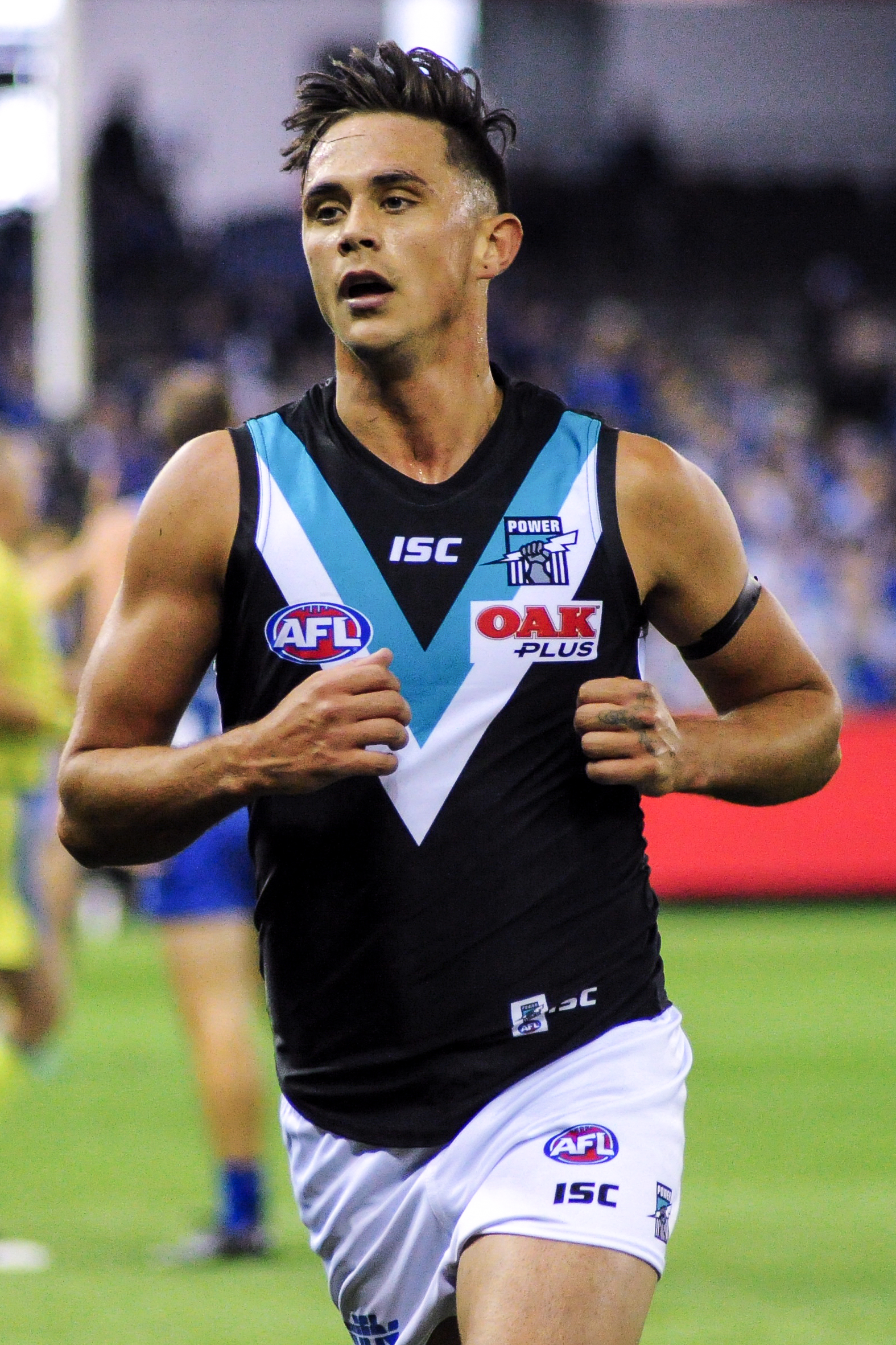 Aidyn Johnson during the AFL round six match between North Melbourne and Port Adelaide on Saturday, 28 April 2018 at Etihad Stadium in Melbourne, Victoria.